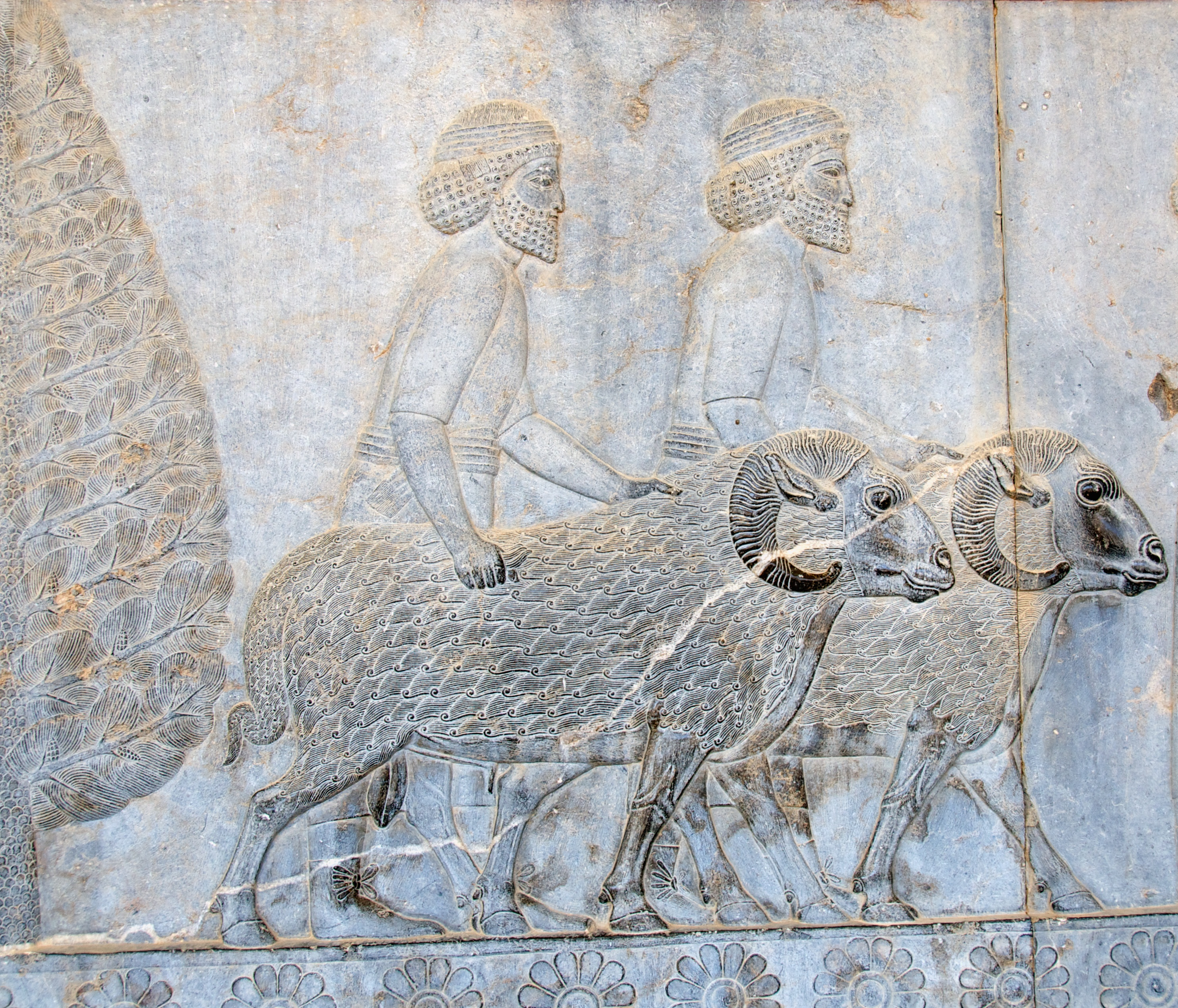 According to the Lonely Planet guide to Iran, "Most impressive of all, however, and among the most impressive historical sights in all of Iran, are the bas-reliefs of the Apadana Staircase on the eastern wall [of the Apadana Palace]." "The panels at the southern end [of the Apadana Staircase] are the most interesting, showing 23 delegations bringing their tributes to the Achaemenid king." "This rich record of the nations of the time ranges from the Ethiopians in the bottom left center, through a climbing pantheon of, among other peoples, Arabs, Thracians, Indians, Parthians and Cappadocians, up to the Elamites and Medians at the top right." Persepolis, Iran Citation Arthur C. Prentice: „Relief of Rams of Cilicians of Distinct Karakul Type on the Apadana Staircase at Persepolis (500 B. C.).“ A Candid View of the Fur Industry. Publishing Company Ltd, Bewdley, Ontario, December 1976.